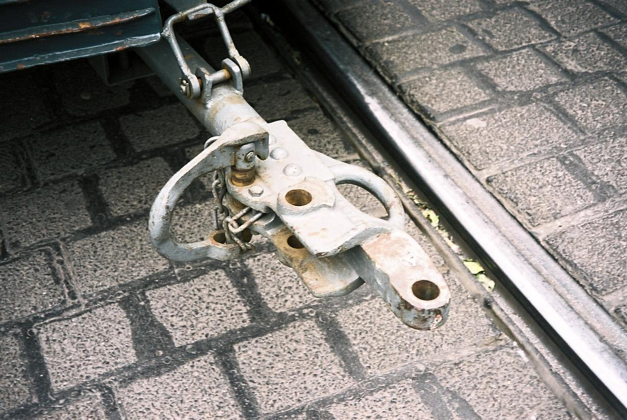 A coupler type Albert (Albert-Kupplung) on a historic tram car in Heidelberg, Germany.